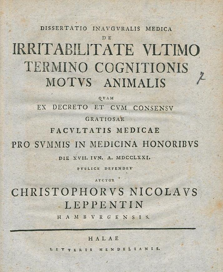 Christoph Nicolaus Leppentin, Thesis 1771